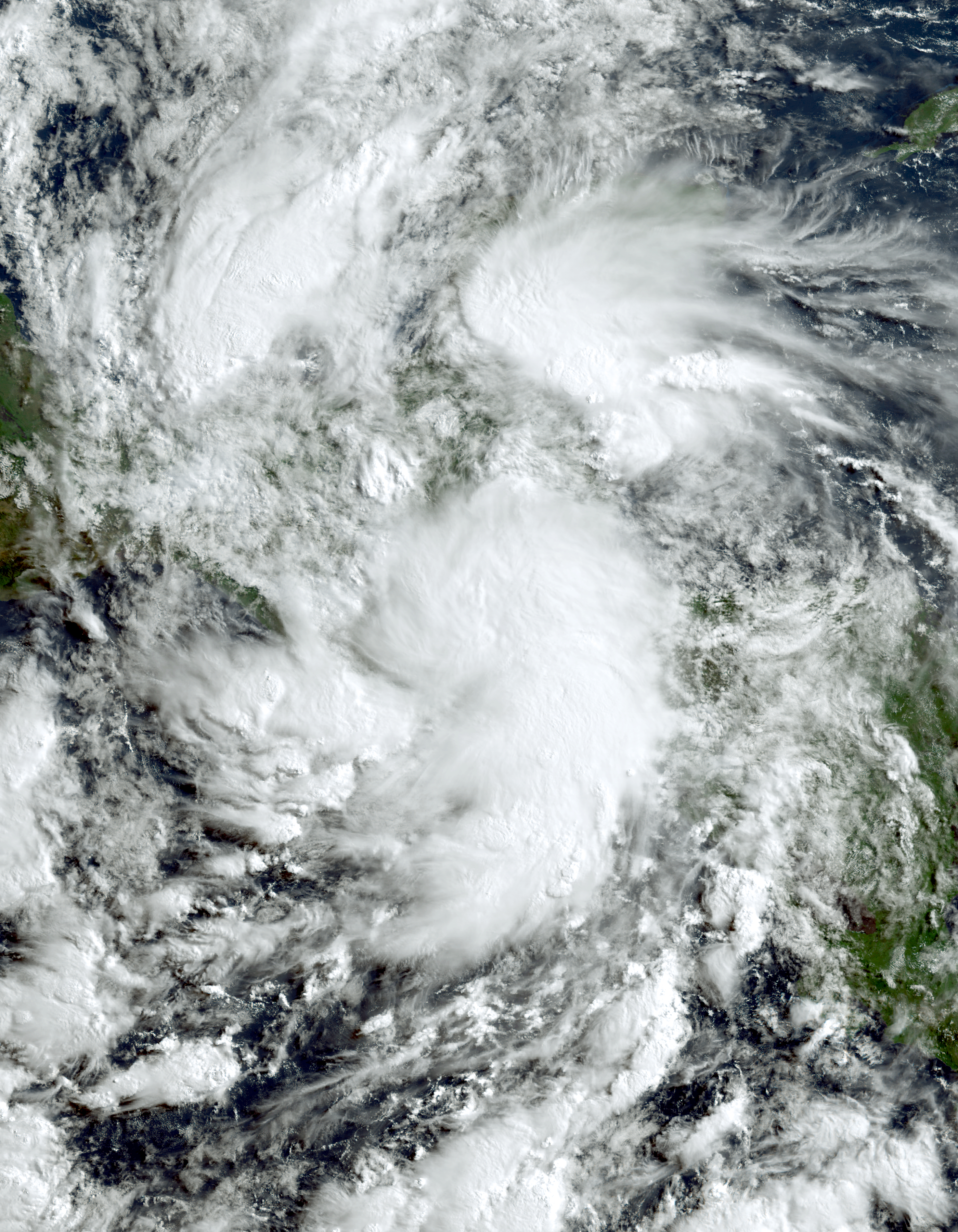 Tropical Storm Amanda moving inland over Guatemala on May 31, 2020